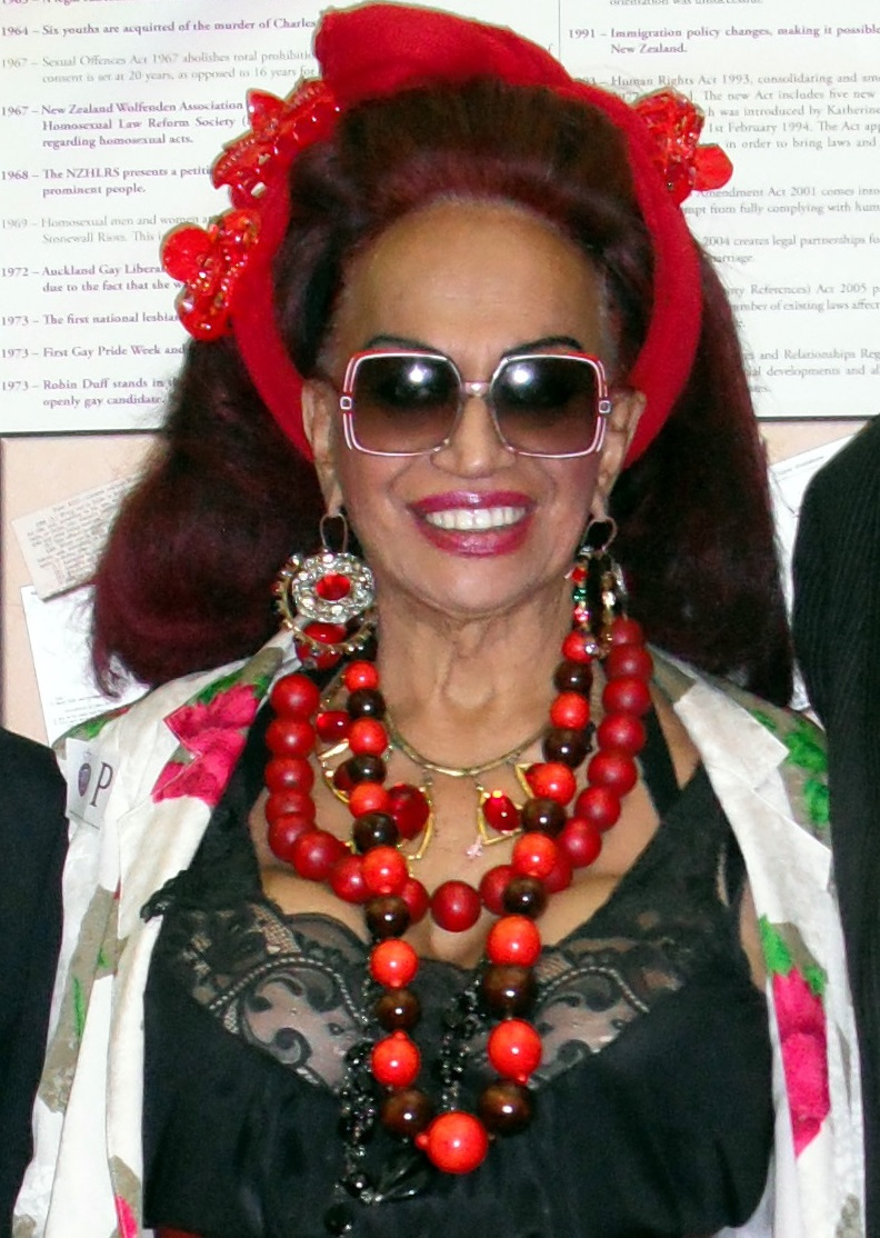 Carmen Rupe in 2009.